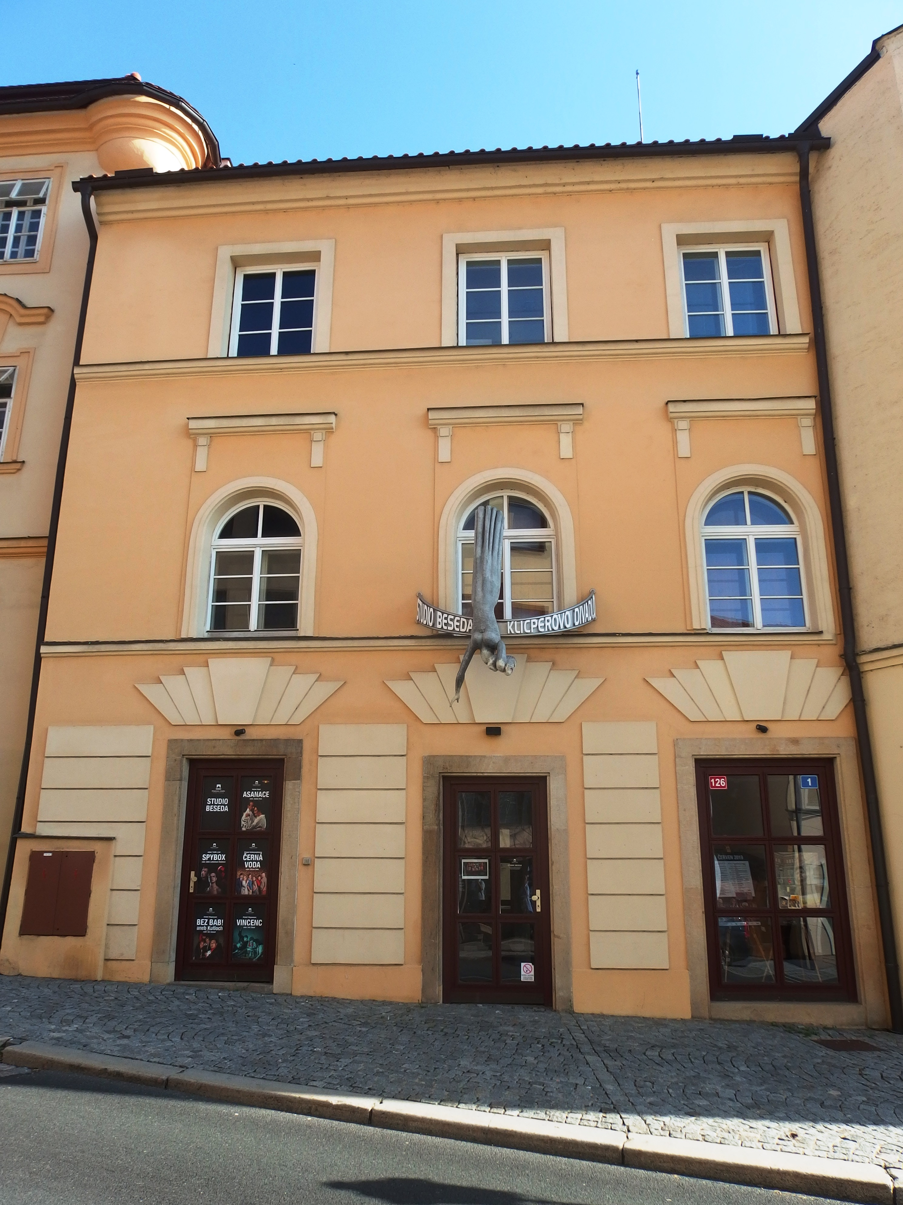 Hradec Králové, Czechia.